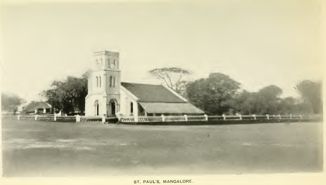 St. Paul's Church, Mangalore (1922), by Rev. Frank Penny's Book 'The Church in Madras', volume 3, facing page 96